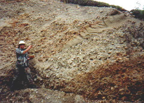 Section of Alluvial Gravels at the Blue Ribbon Mine Alaska